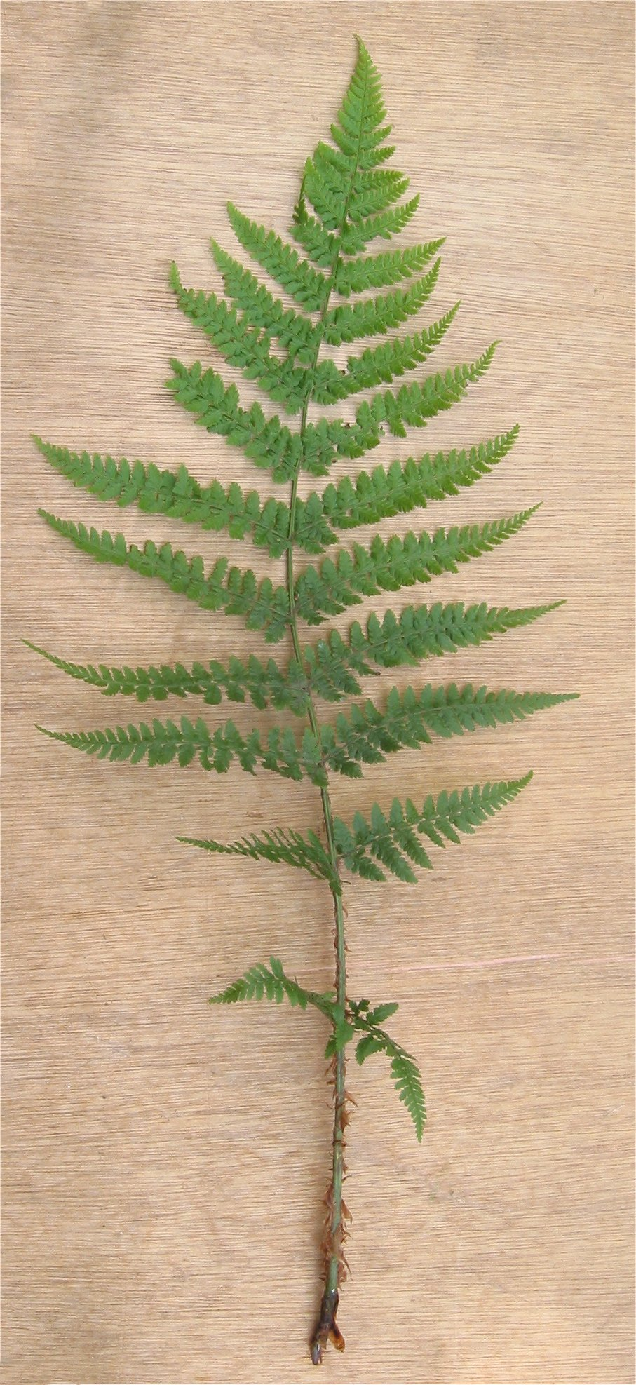 Dryopteris dilatata